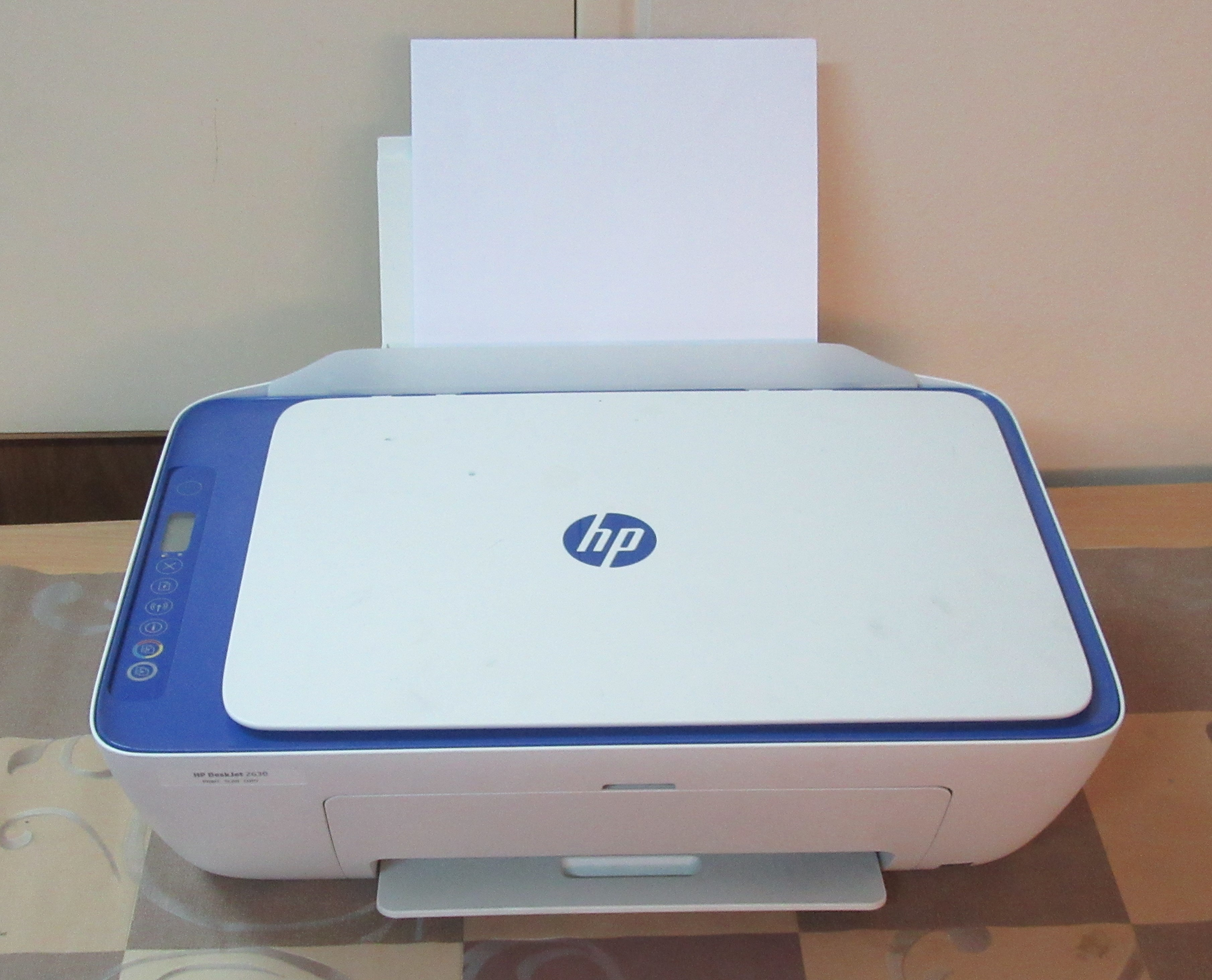 HP Deskjet All in One Printer with print, copy and scan features